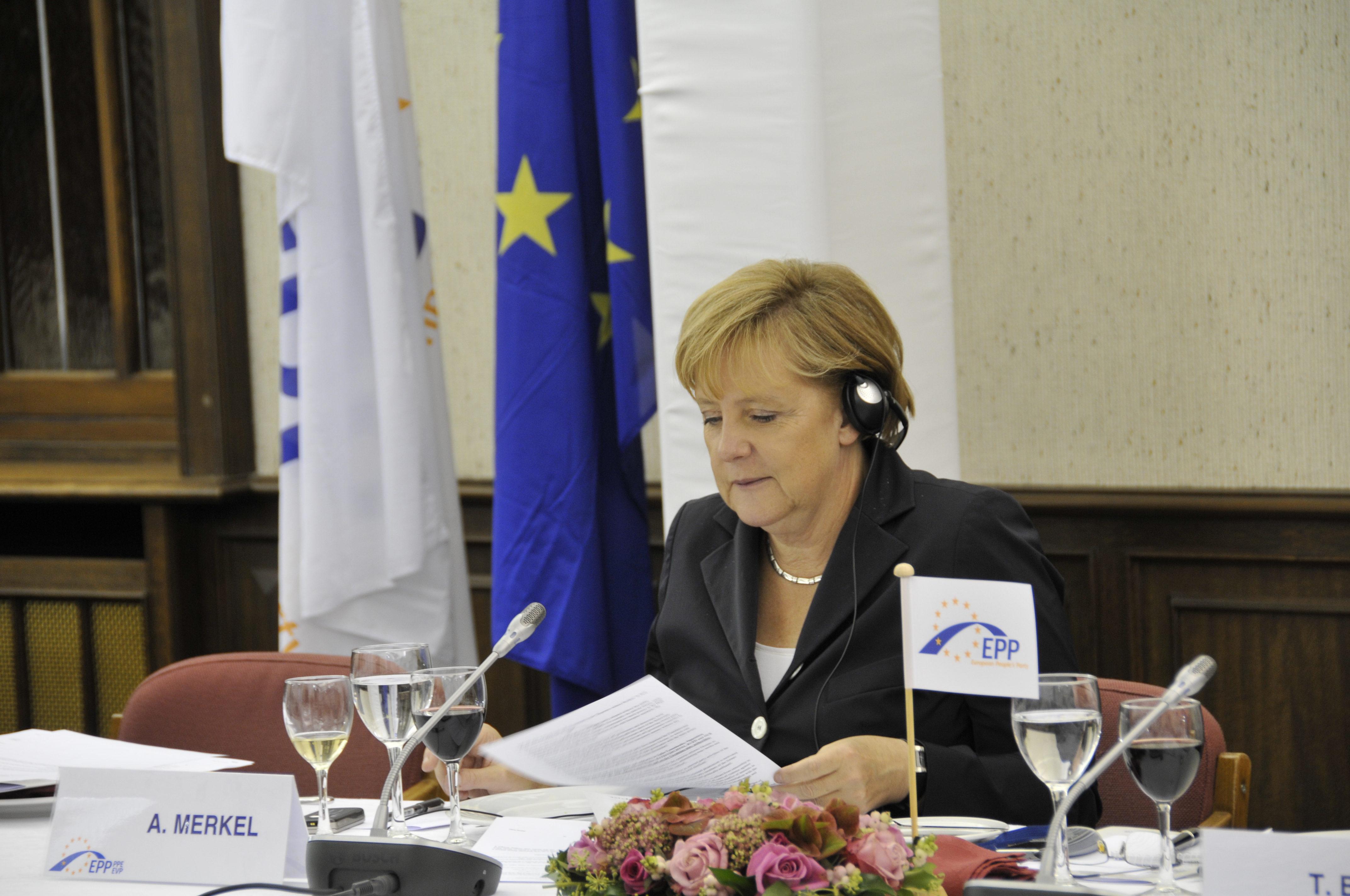 Angela Merkel at the EPP Summit in Meise, Belgium.